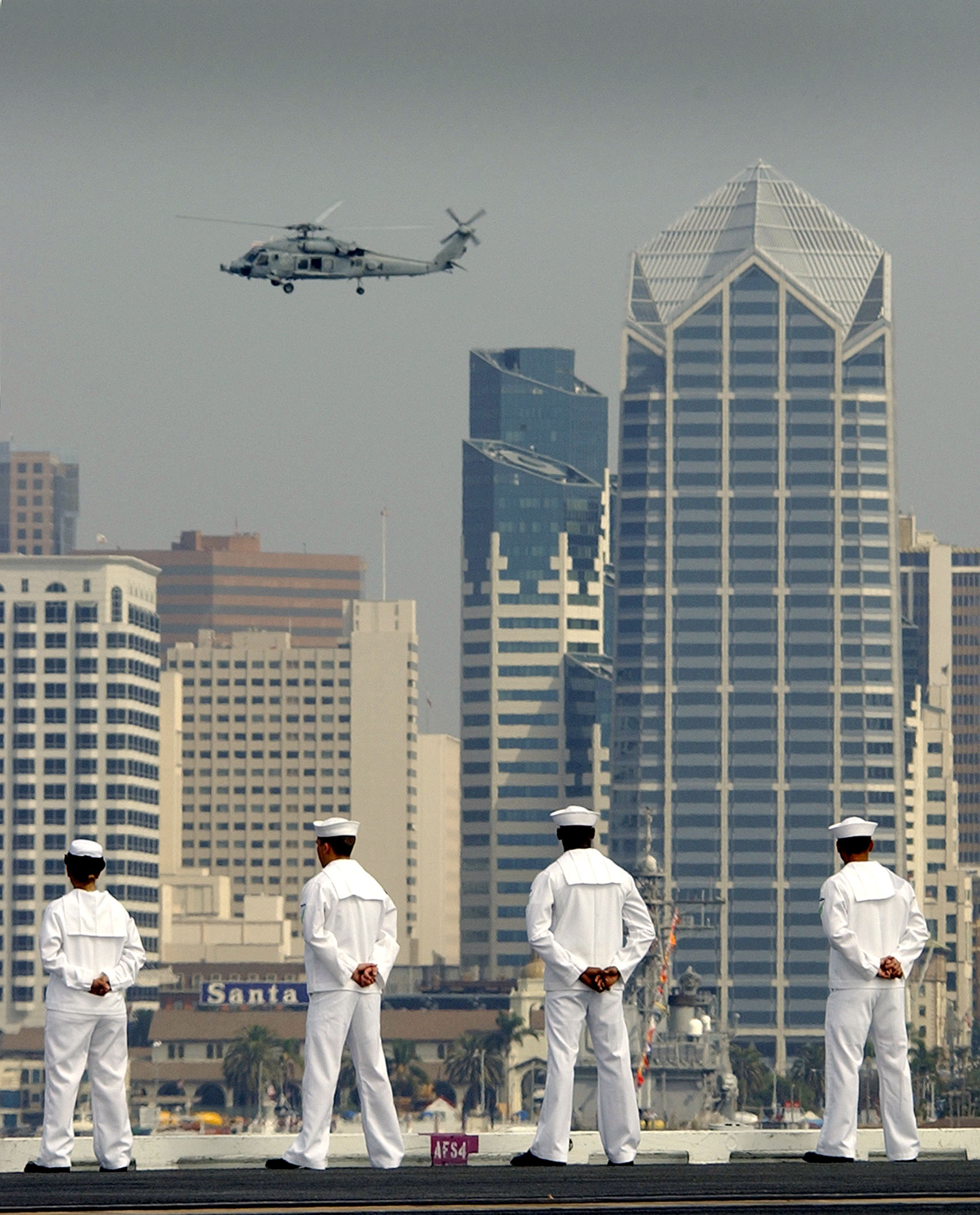 Pacific Ocean (Oct. 4, 2003) -- Sailors "man the rails" on the flight deck of USS John C. Stennis (CVN 74) as the ship arrives in port for the annual San Diego Fleet Week parade of ships ceremony. U.S. Navy photo by Photographer's Mate 3rd Class Joshua Word. (RELEASED)